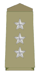 Insignia of Deupty Superintendent of Police